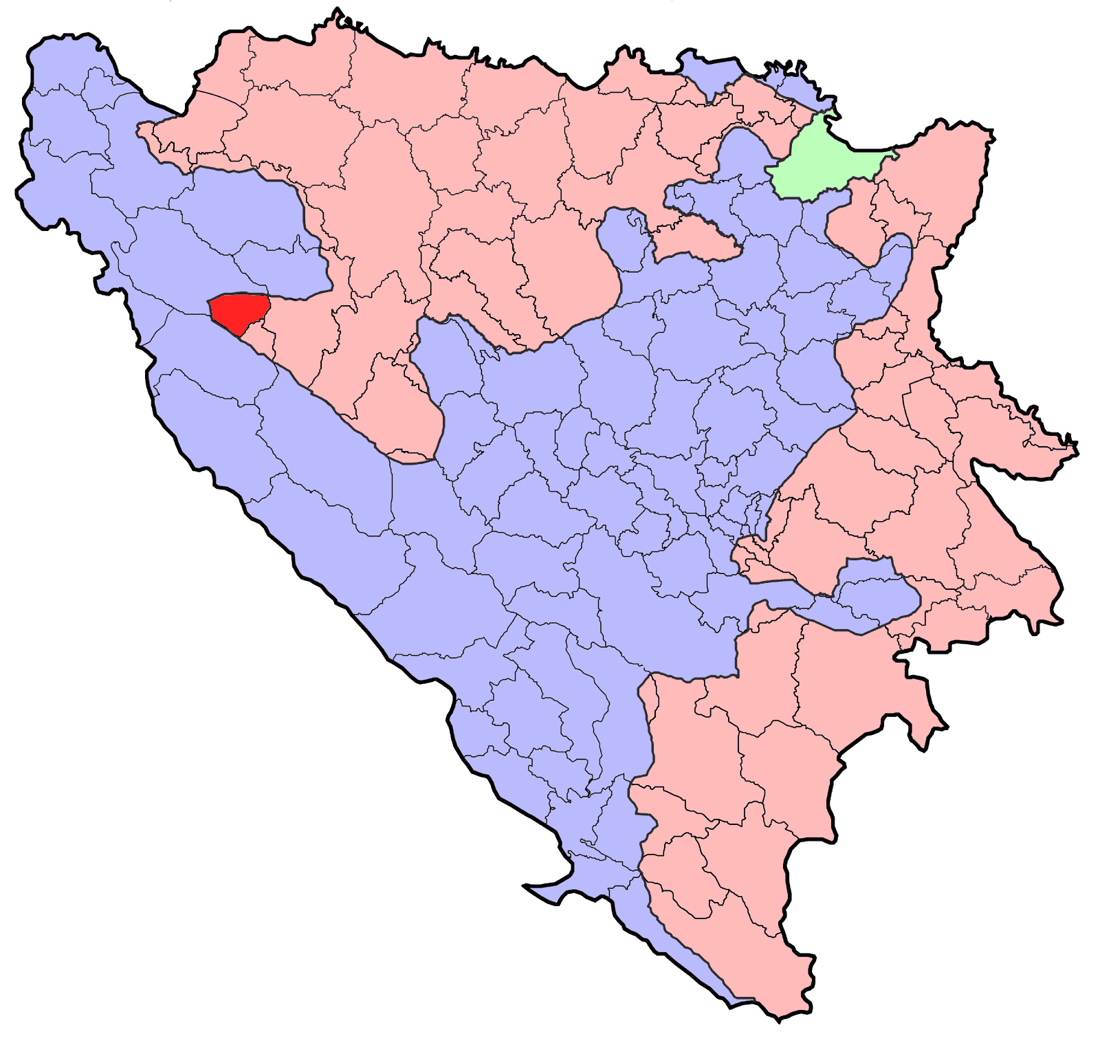 Location of Petrovac municipality in Bosnia and Herzegovina.